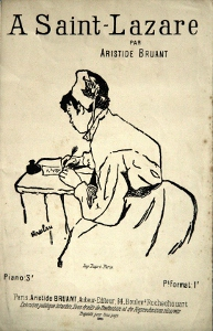 Musical score of the song Eros Vanné illustrated by Henri de Toulouse-Lautrec. Singer Aristide Bruant